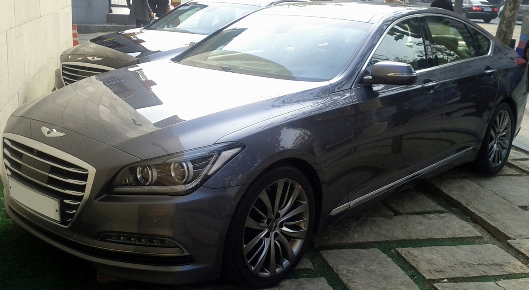 Hyundai Genesis